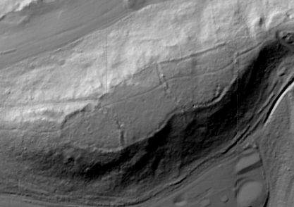 A LIDAR image of King's Castle, Wells, Somerset, using QGIS (min 90, max 160; contrast 100).